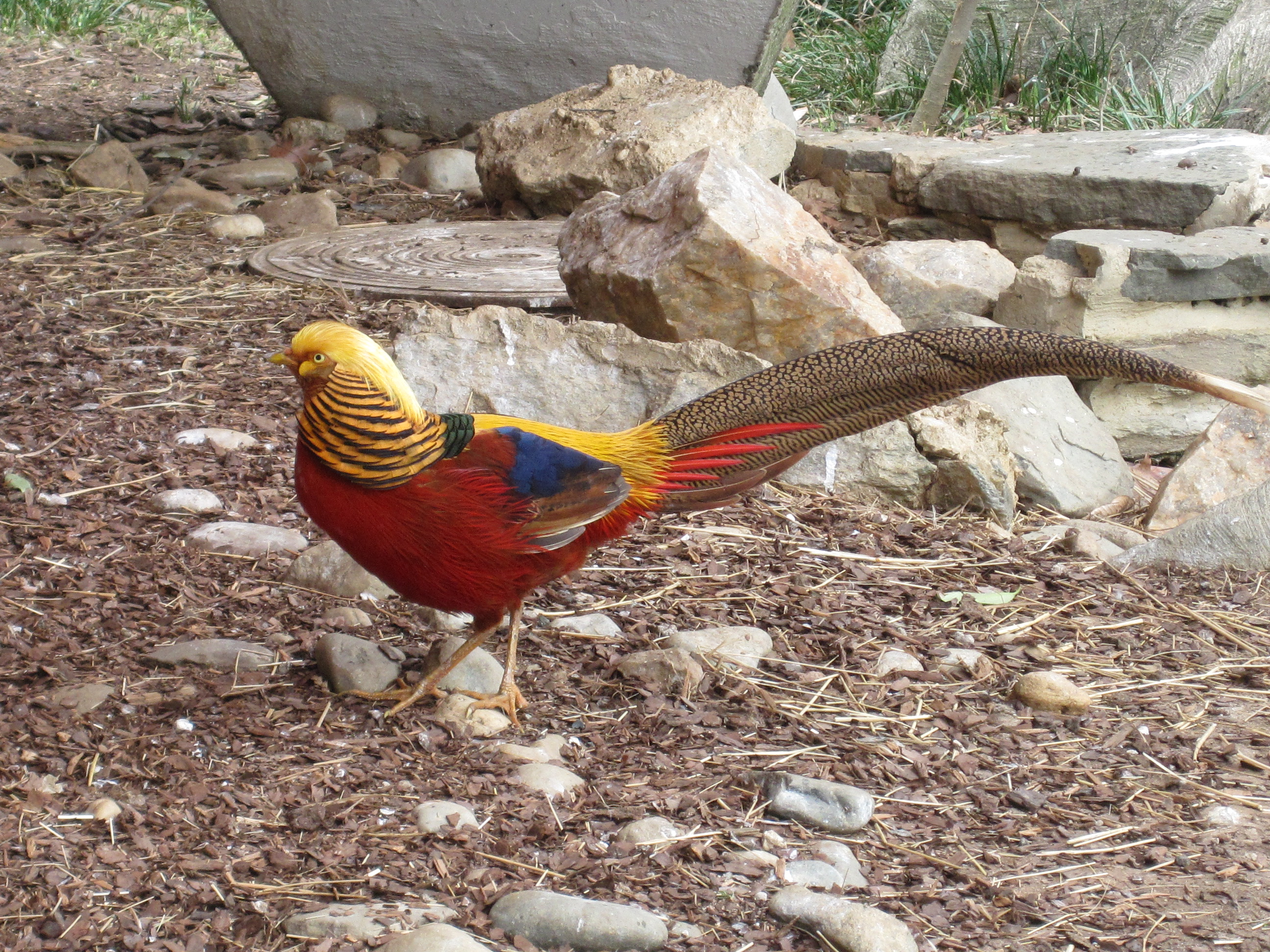 Male Golden Pheasant in the Smithsonian National Zoological Park in Washington.